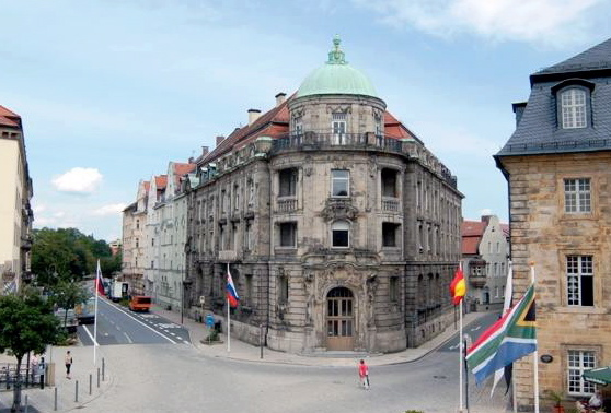 Front of the Iwalewahaus, Wölfelstraße 2 in Bayreuth